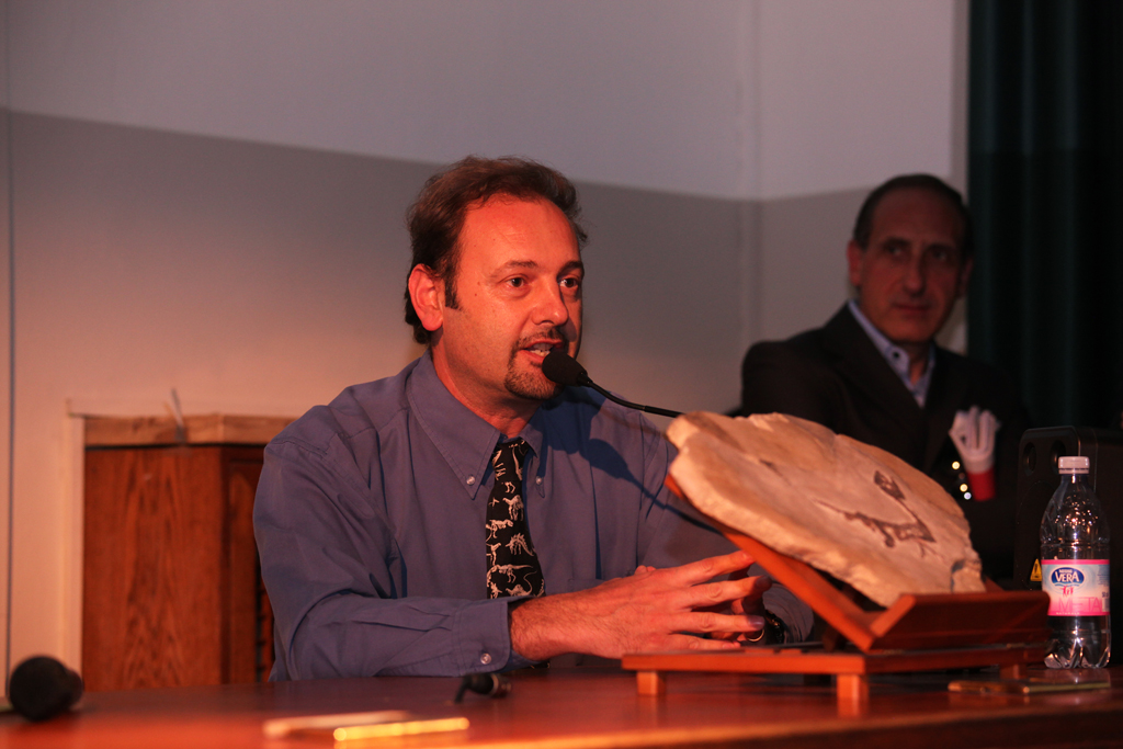 Event: Meet the Media Guru | Jack Horner Date: 29th May 2012 Venue: Museo di Storia Naturale, Milan, Italy Twitter: @mmguru / #MMGHorner Photo by Paolo Sacchi